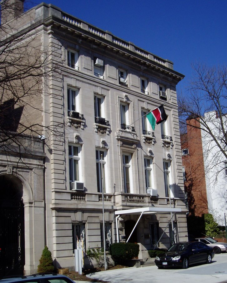 The Embassy of the Republic of Kenya located on Sheridan Circle at 2249 R Street, NW in the Sheridan-Kalorama neighborhood of Washington Previous owners of the Beaux-Arts building include C. Peyton Russell (original owner; 1908-1915), politician James D. Phelan (residence while serving in the United States Senate; 1915-1921) and the government of Sweden (embassy; 1921-1971). The 2009 property value of the Kenyan embassy is $6,554,280 ($6,133,120 - main building; $421,160 - side building). It's a contributing property to the Massachusetts Avenue Historic District and Sheridan-Kalorama Historic District.